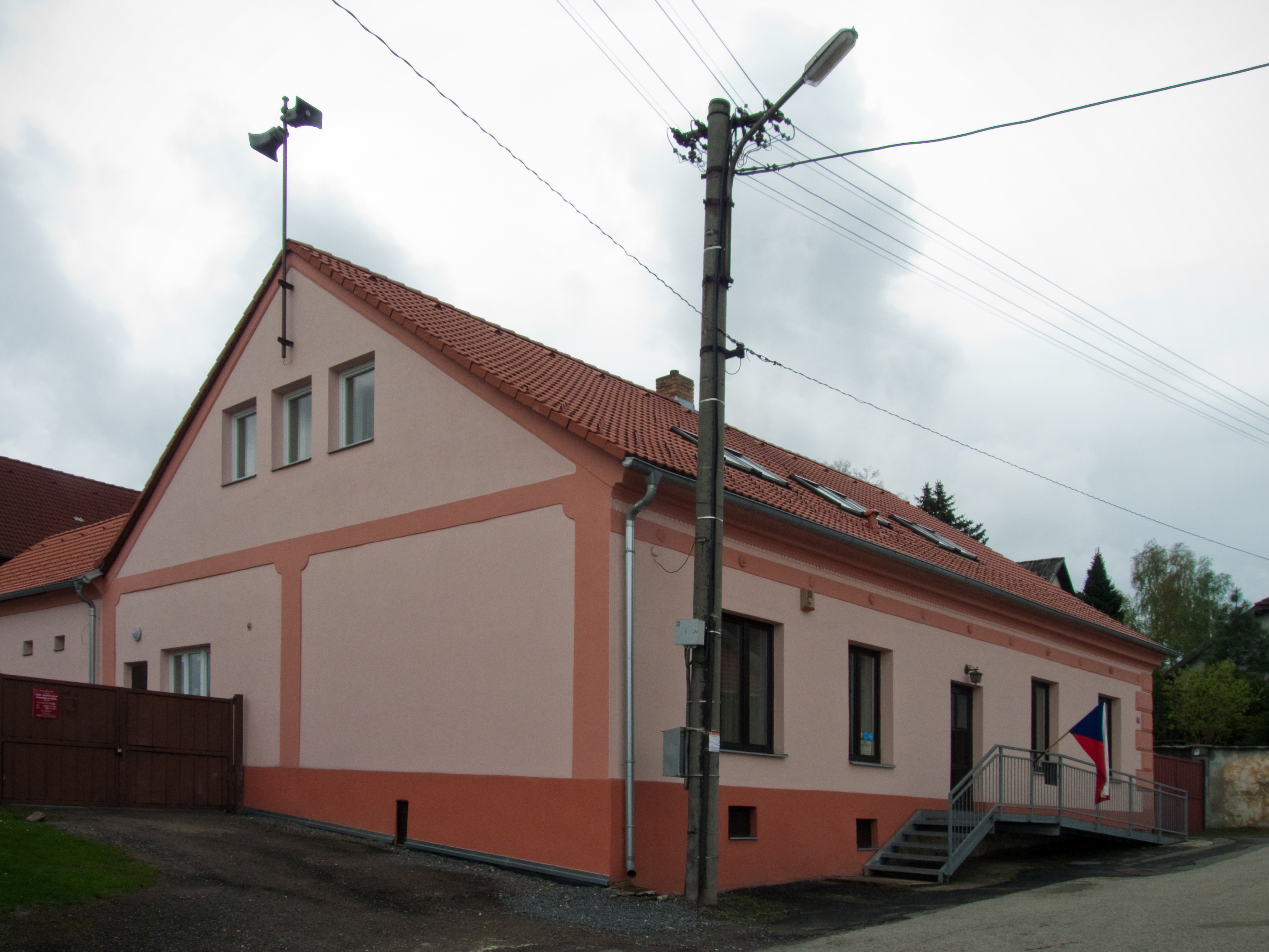 Municipal authority building of the village of Sudoměřice u Tábora, Tábor district, Czech Republic